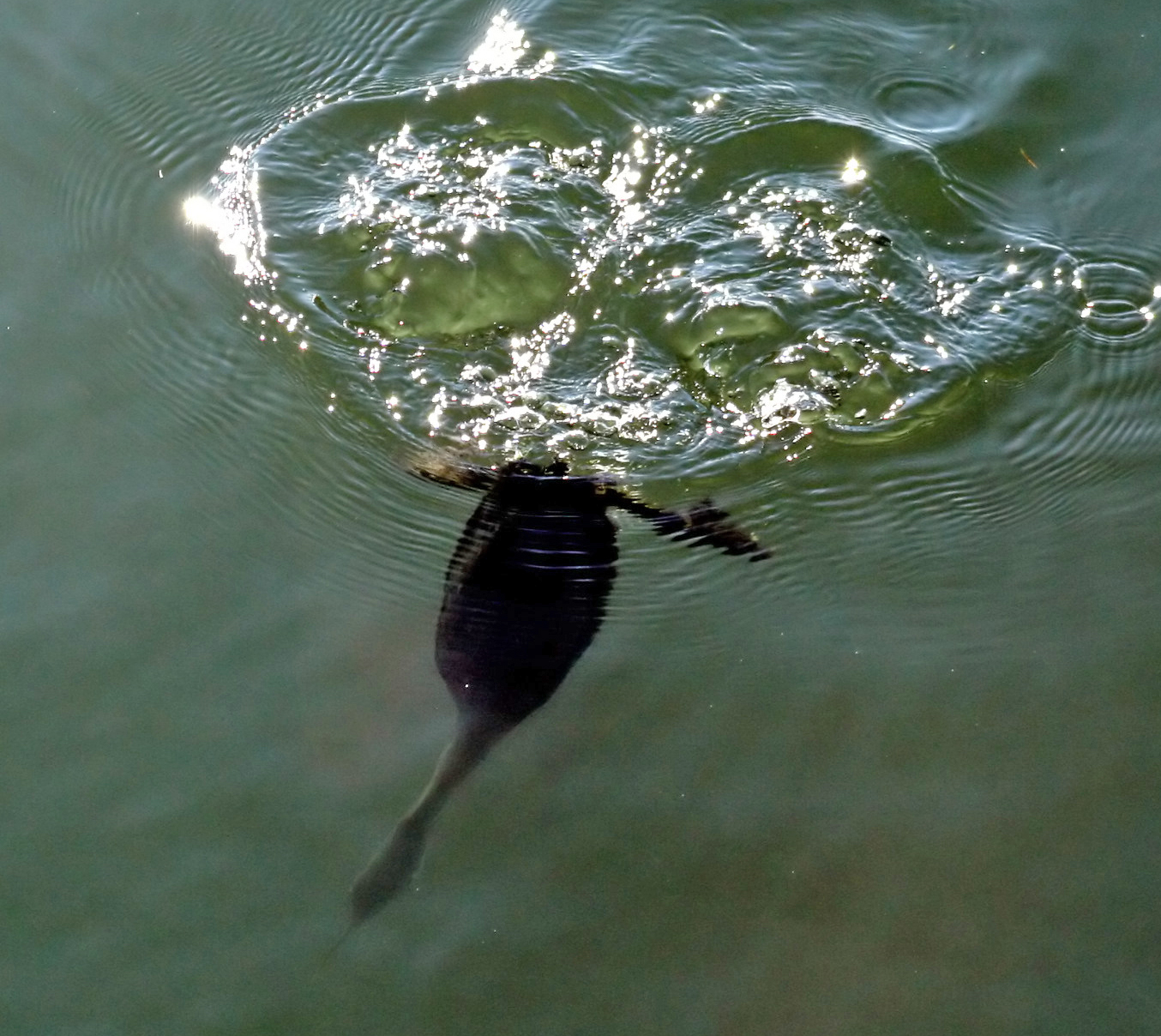 Diving grebe (Aechmophorus clarkii or Aechmophorus occidentalis)